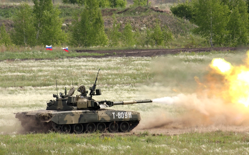 T-80UK tank at VTTV-Omsk in 2009.